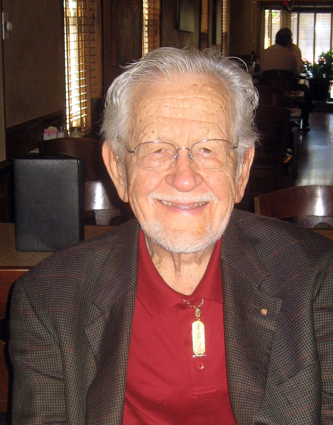 Jack Roberts on a consulting trip to DuPont. At the Drel Rose cafe for lunch